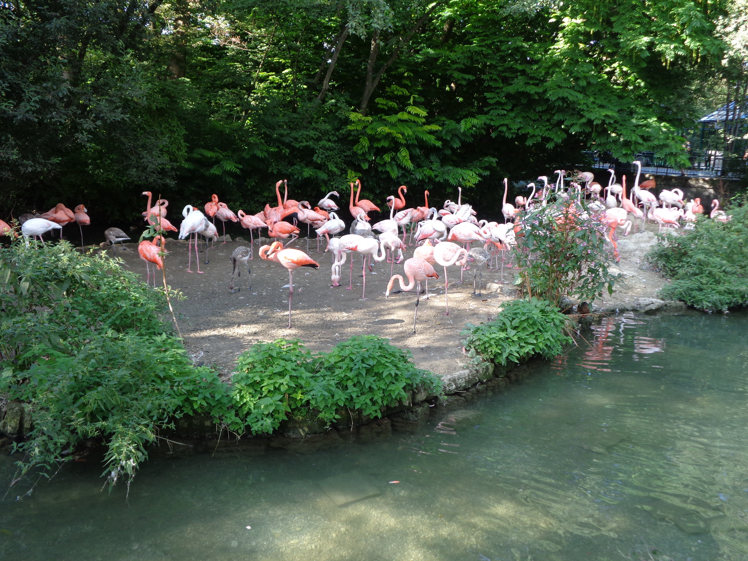 Flamingo flock at water in the Hellabrunn Zoo, Munich, Germany